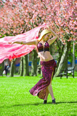 Image of a belly dancer performing at the Meadows in Edinburgh, UK.